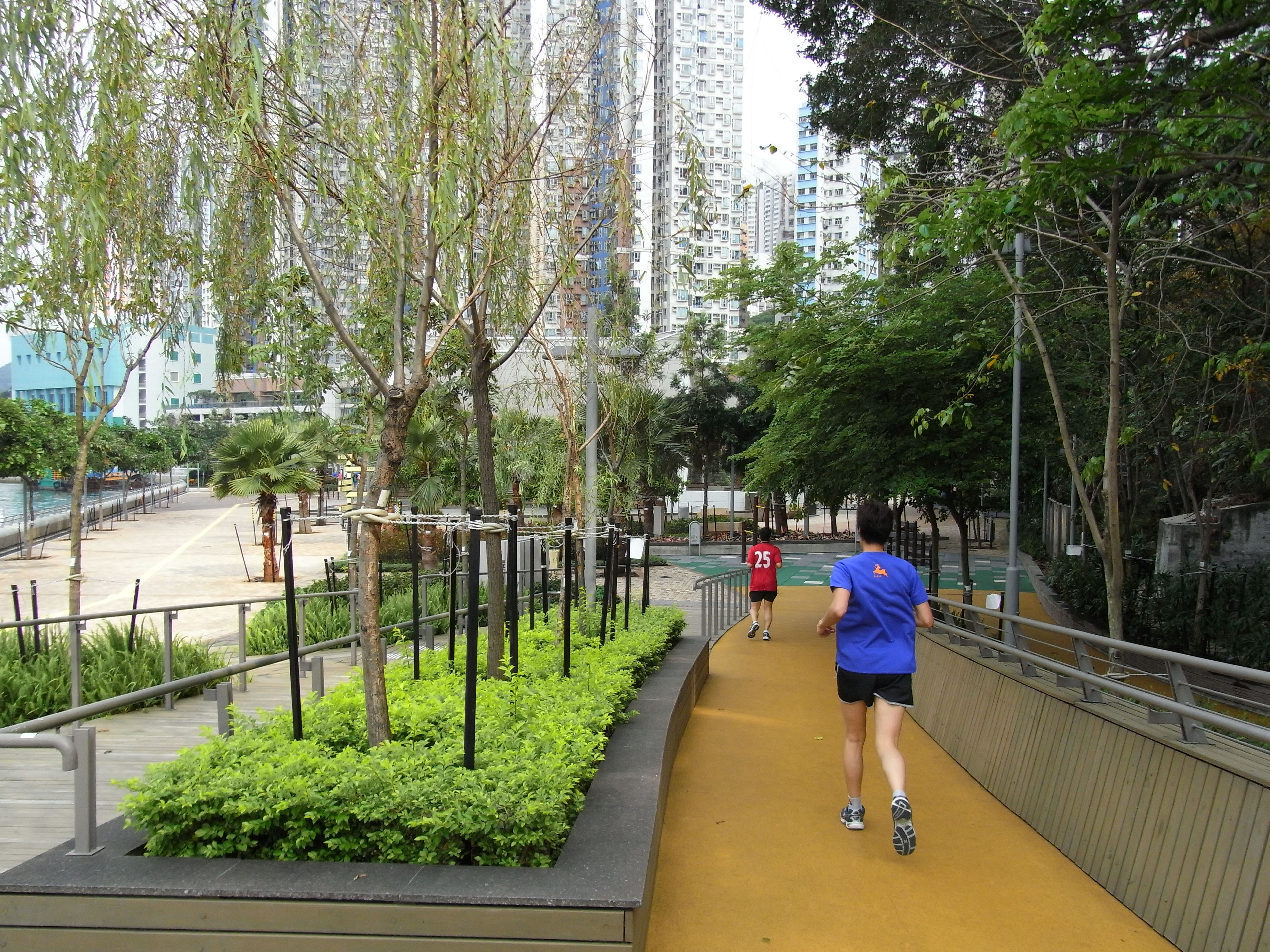 鴨脷洲風之塔公園, Ap Lei Chau Wind Tower Park, Hong Kong